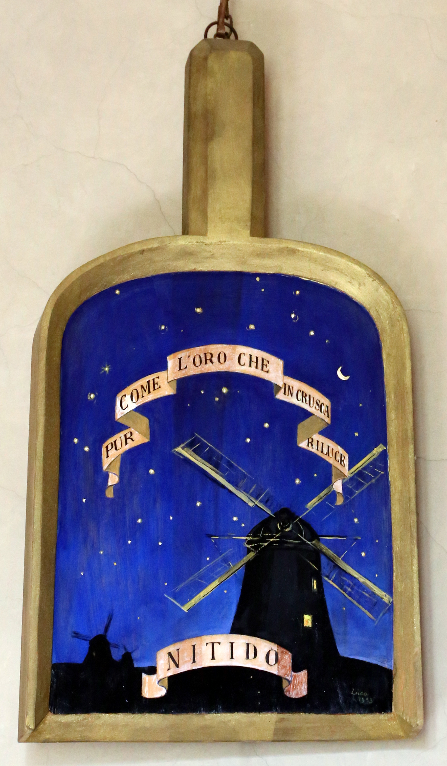 Shovels of Accademici della Crusca